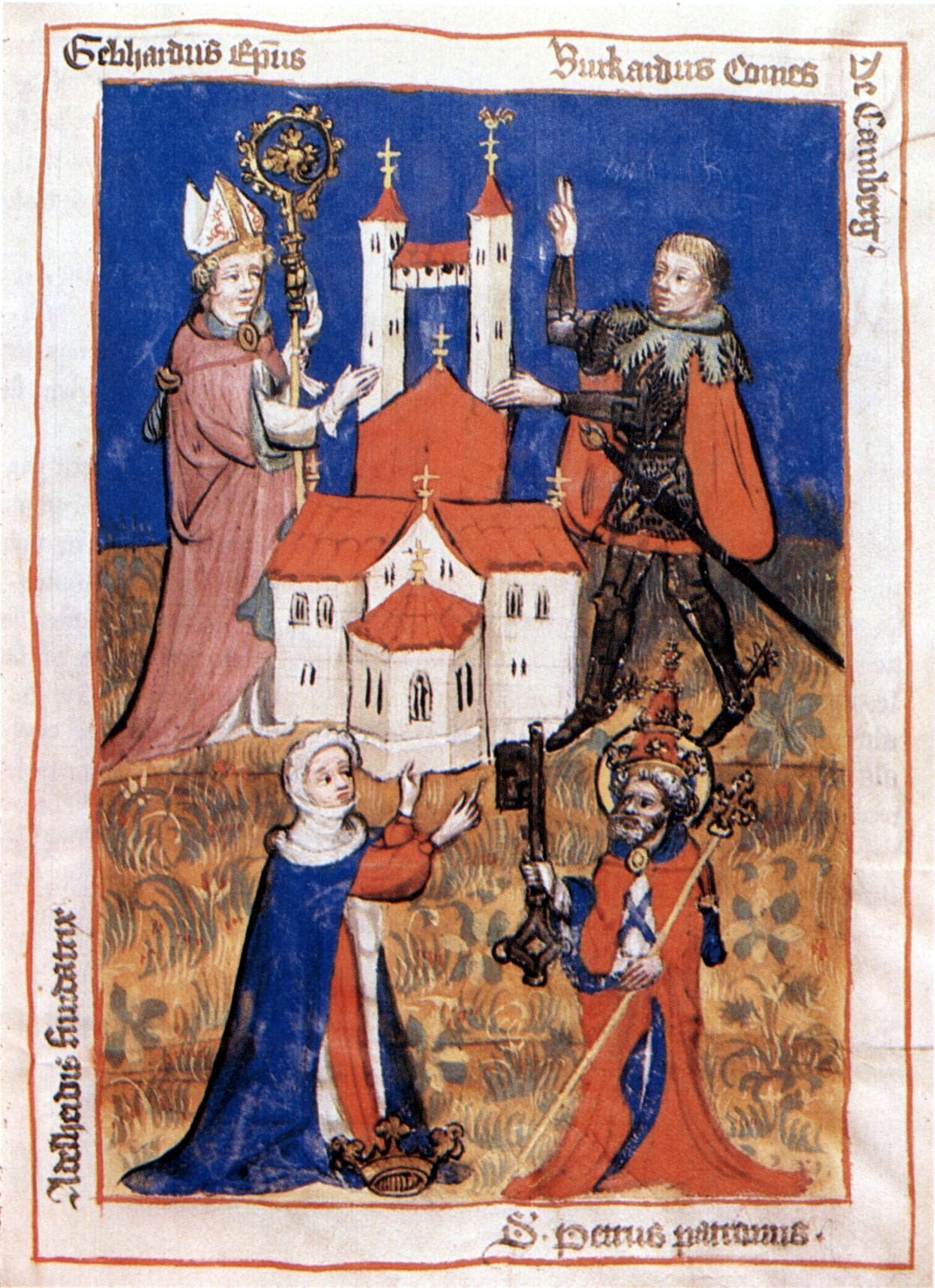 Illustration from the Obleybuch of Öhringen, showing the founding of the Öhringen covent of canons in 1037. Lower left: the founder, countess Adelheid of Metz, lower right: Petrus, upper left: bishop Gebhard of Regensburg, upper right: count Burchard of Comburg